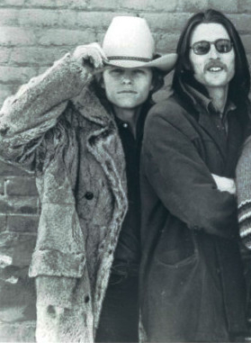 Cropped publicity photo of the musical group Firefall.